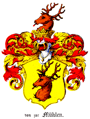 Coat of arms of zur_Mühlen family